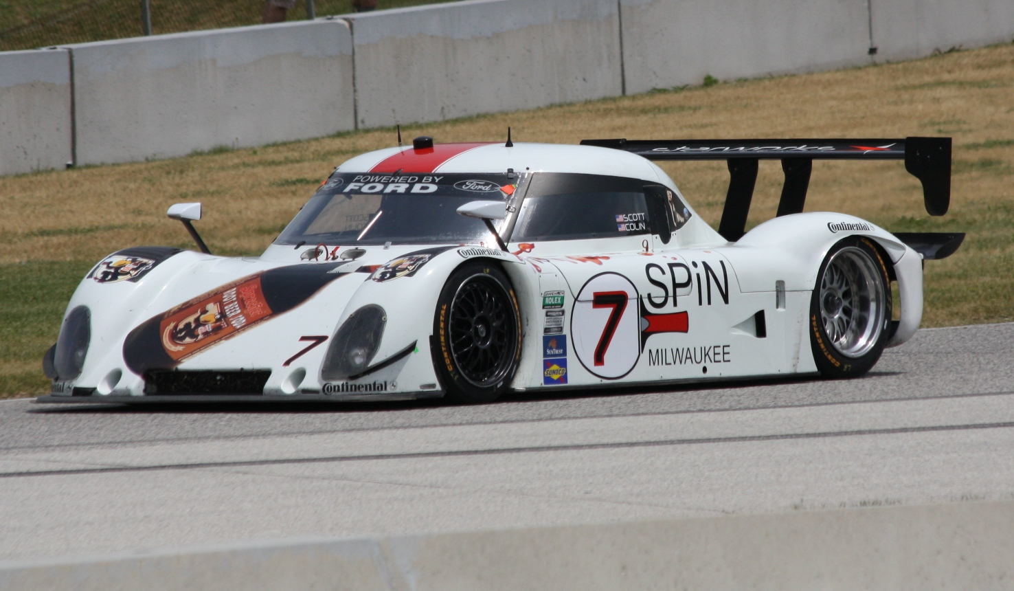 The Starworks Motorsport Daytona Prototype driven by Scott Mayer and Colin Braun at a 2012 race at Road America.